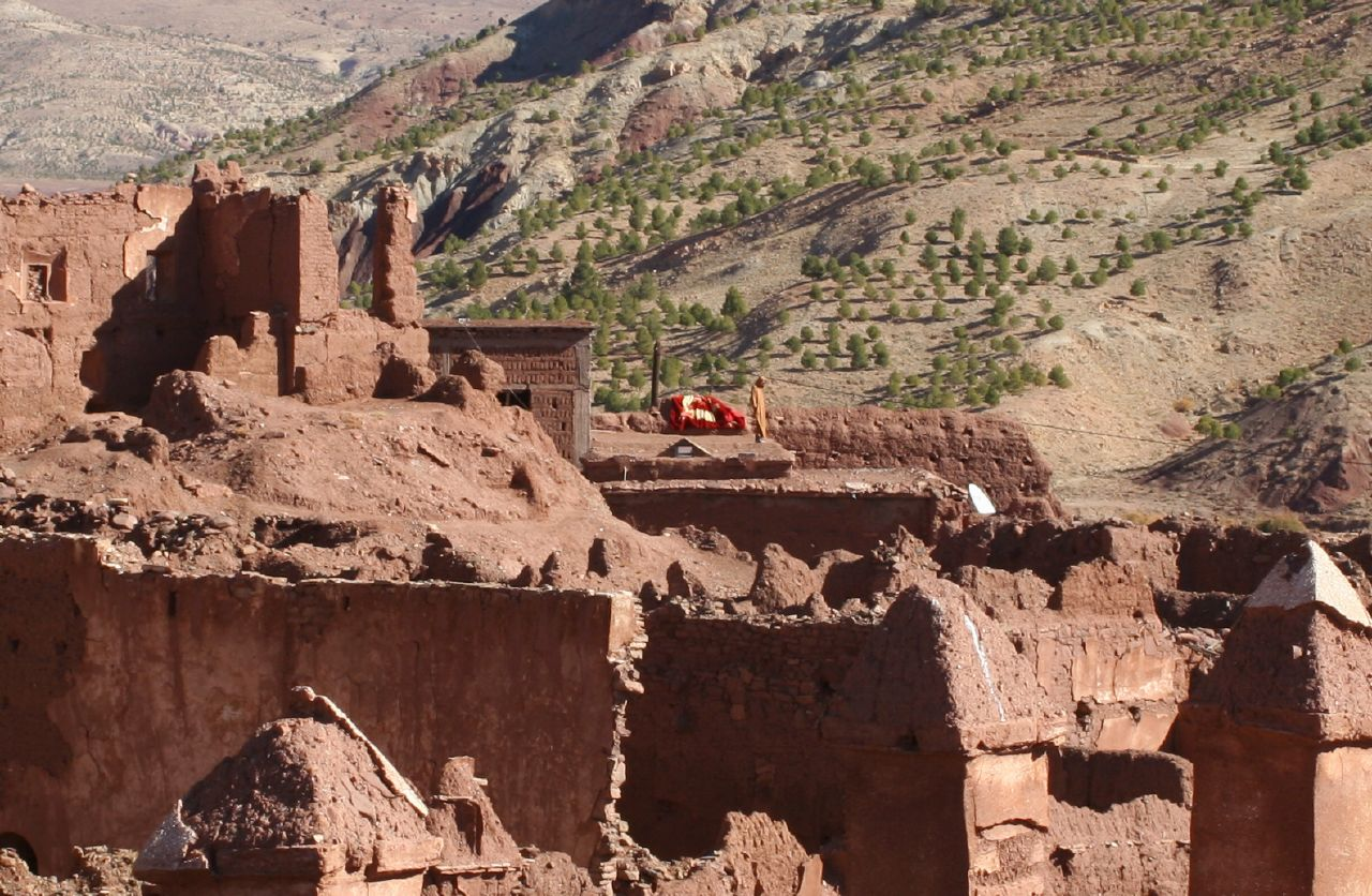 Kasbah of Telouet